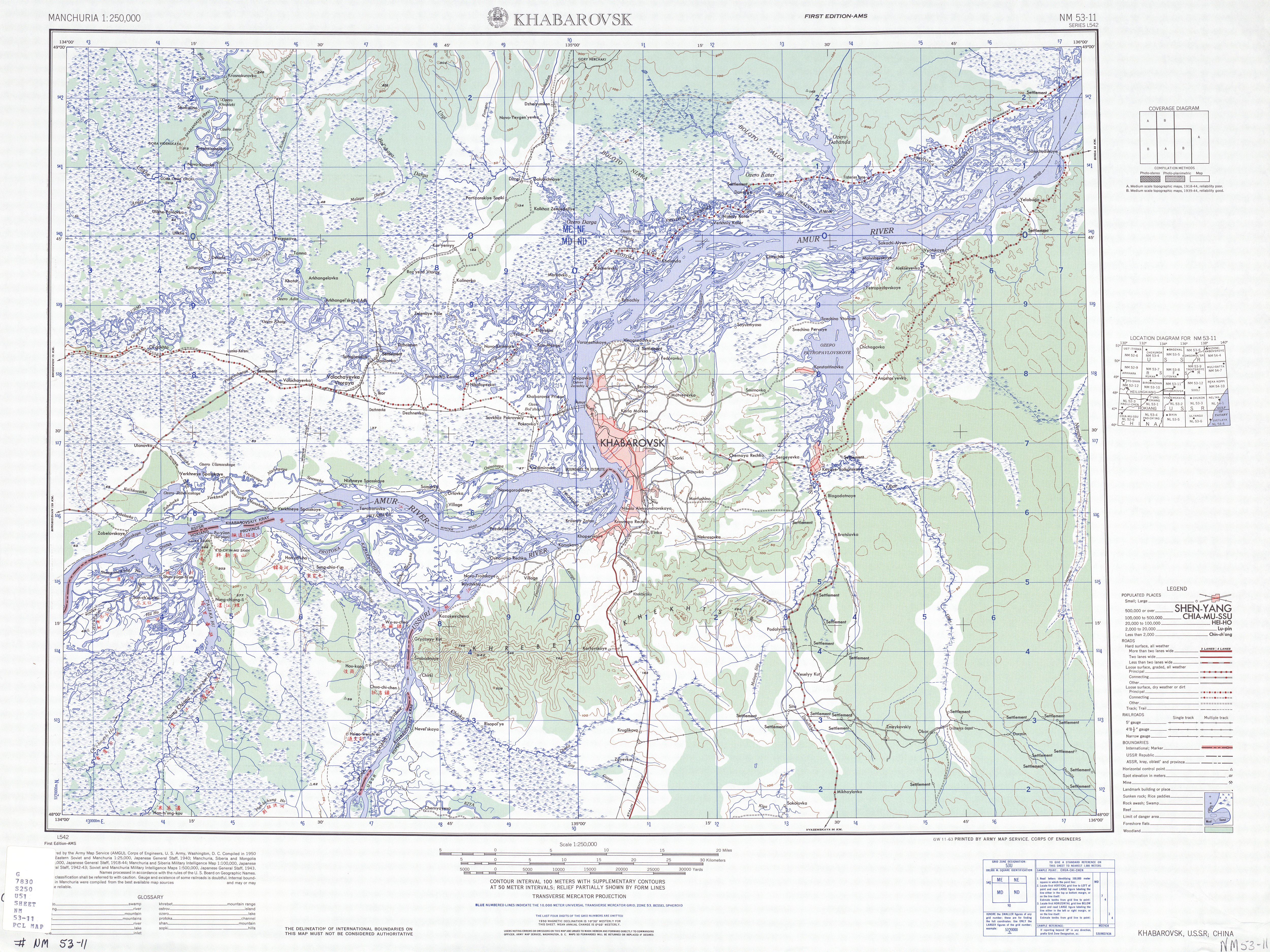 Map of Khabarovsk area, USSR (present-day Russia)